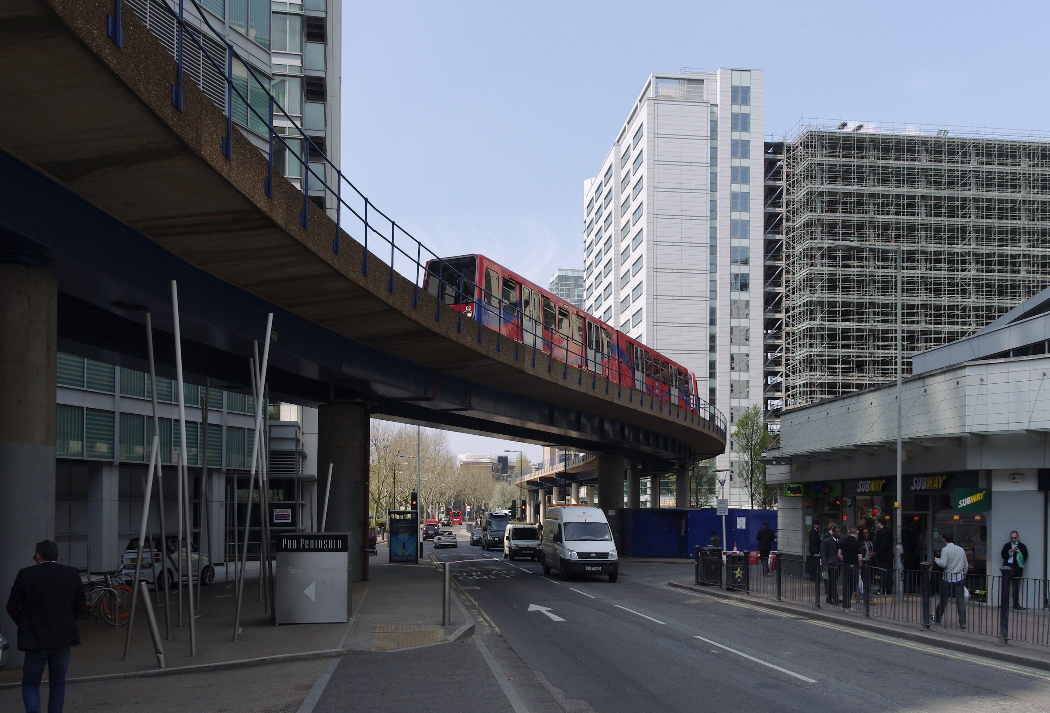 DLR type B2K EMU #02 approaches South Quay with a service for Lewisham.